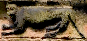 Photograph of the 16th century, sandstone carving of a grinning Cheshire Cat on the west wall of St Wilfrid's Church tower, Grappenhall, Warrington, Cheshire. Said to have been Lewis Carroll's (Charles Lutwidge Dodgson's) inspiration for the Cheshire Cat character in his children's book- Alice's Adventures in Wonderland. Carroll's birthplace of Daresbury is adjacent to the village of Grappenhall, Warrington, Cheshire